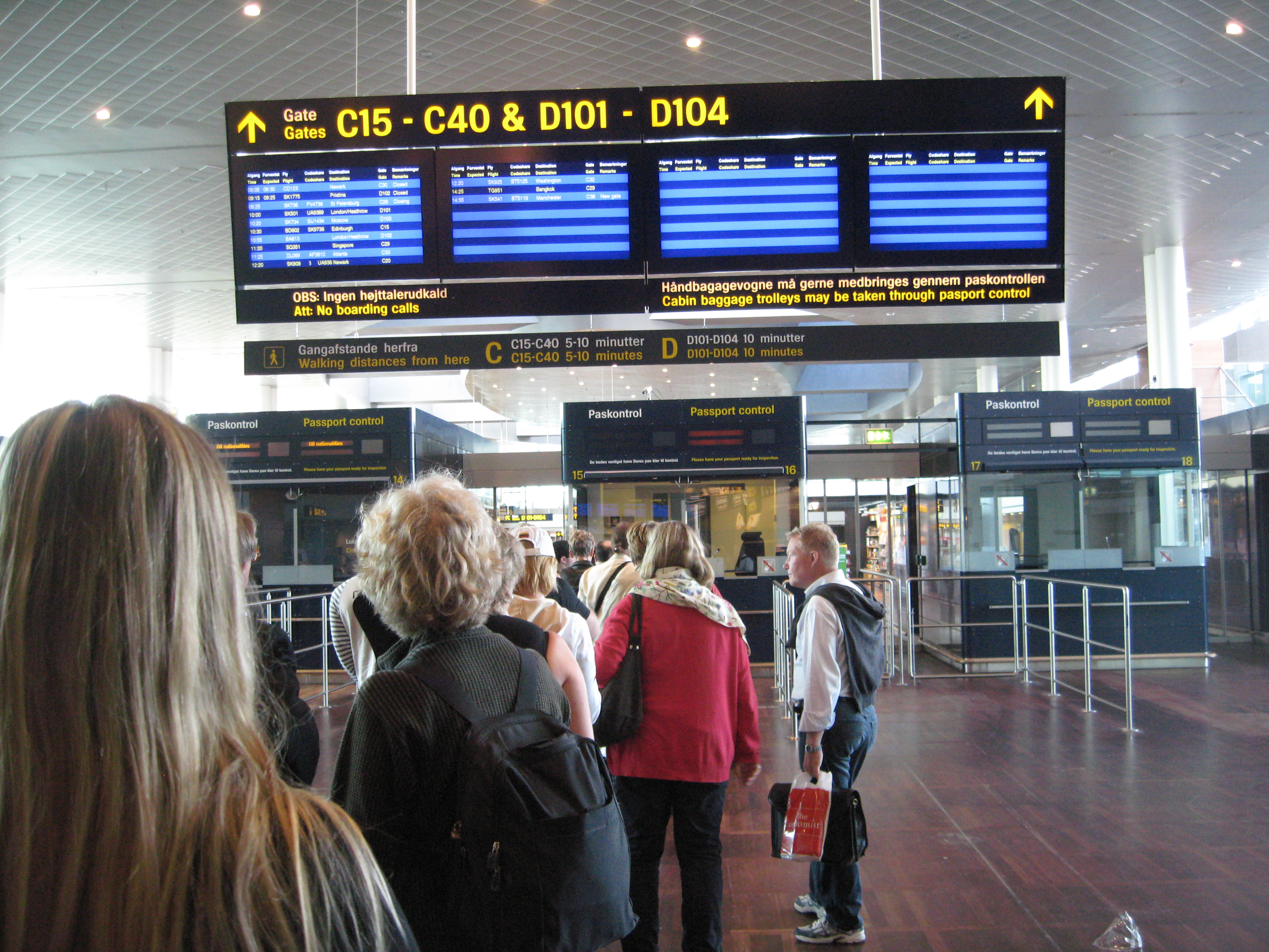 Passport control at Copenhagen airport.